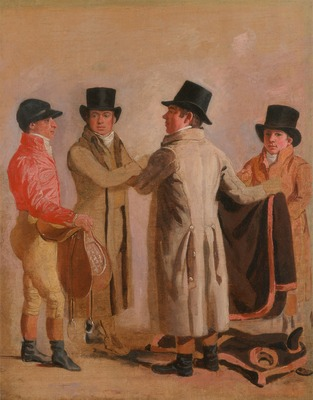 Jockey Frank Buckle (far left), Thoroughbred owner John Wastel, horse trainer Robert Robson (center) and a stable boy.